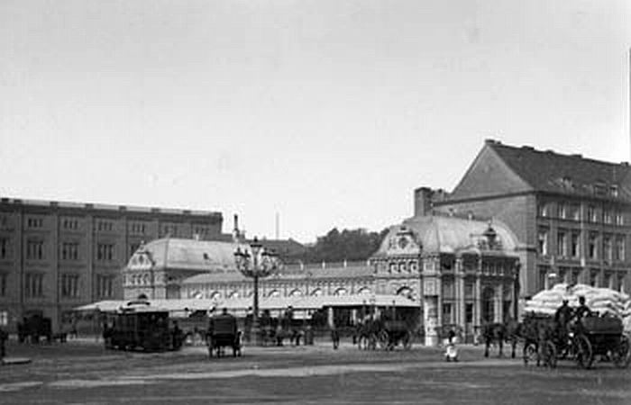 The Café at Schlossfreiheit on Spreeinsel in Berlin; in the background on the left the Bauakademie by Karl Friedrich Schinkel.